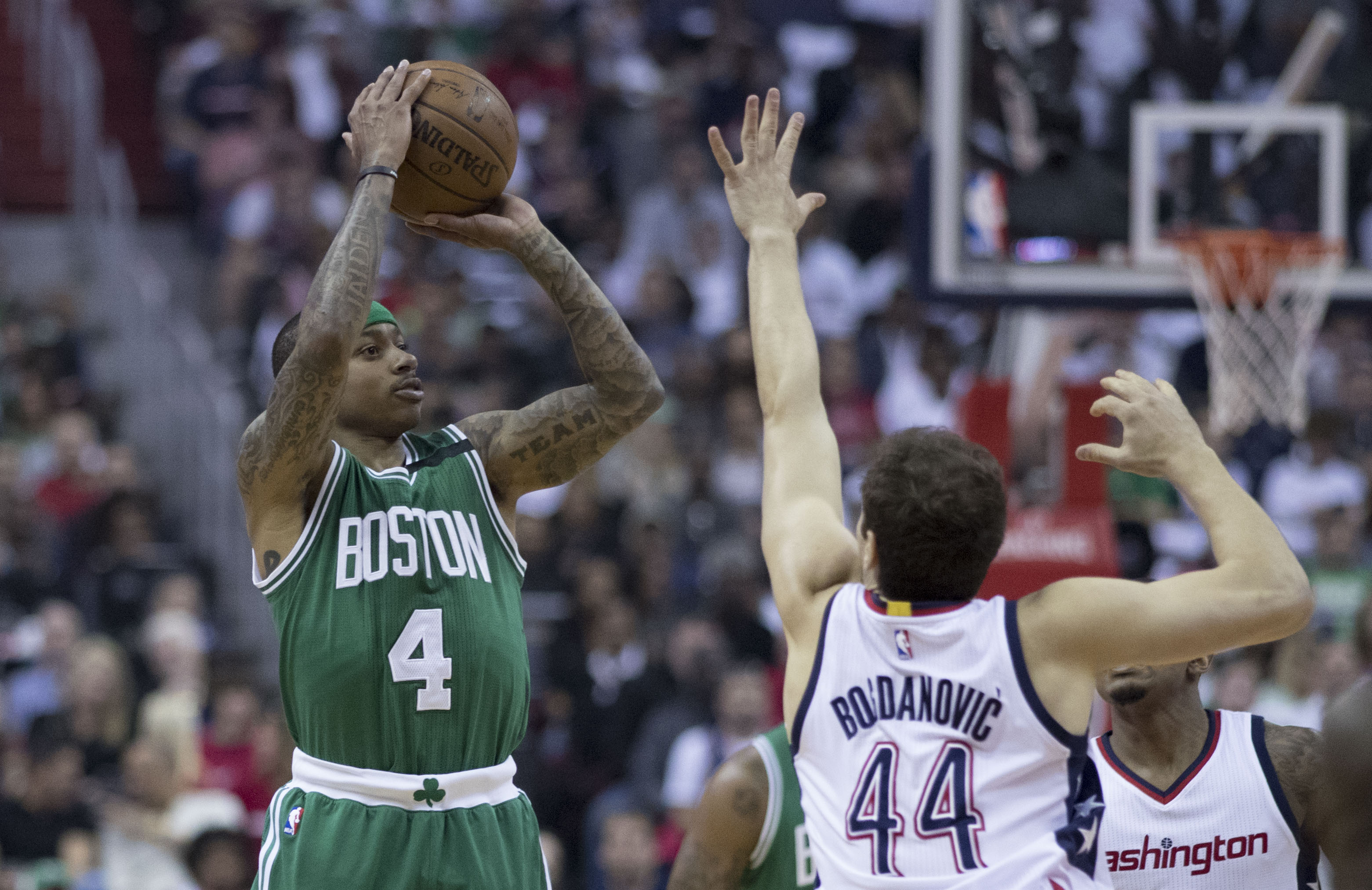 Celtics at Wizards Playoffs 5/7/17